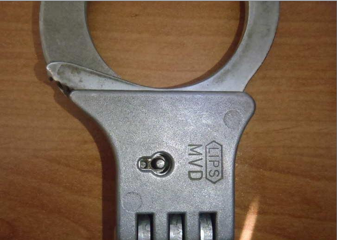 Dutch Department of Defence handcuffs